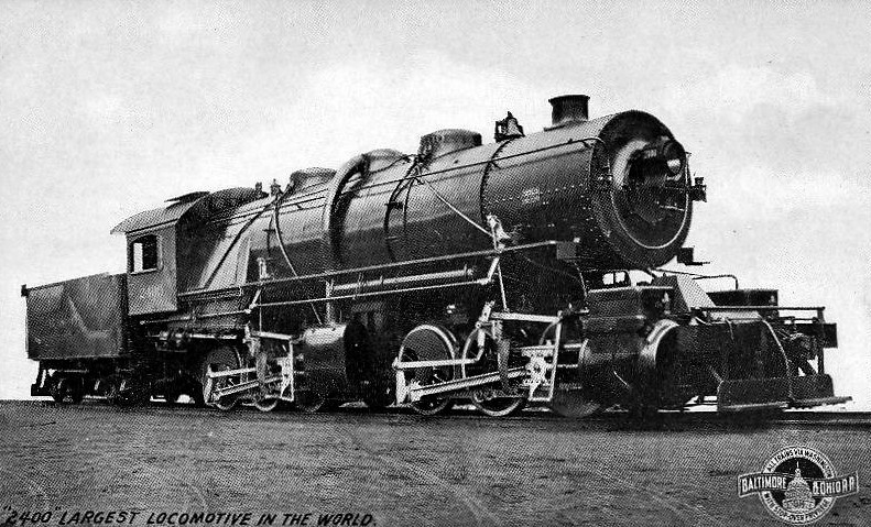 Postcard photo of "Old Maude", the Baltimore and Ohio Railroad's mallet locomotive. At the time of the photo, it was the most powerful locomotive in the world and was the first mallet locomotive in the United States.